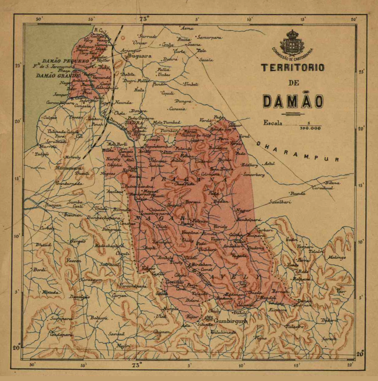 Map of the Territory of Damão (now Daman) which was one of the three territories of Portuguese India along with Goa and Diu. The exclaves of Dadra and Nagar Haveli were part of the Territory of Damão. The Portuguese royal coat of arms indicates that this map was published before the republican revolution of October 1910.